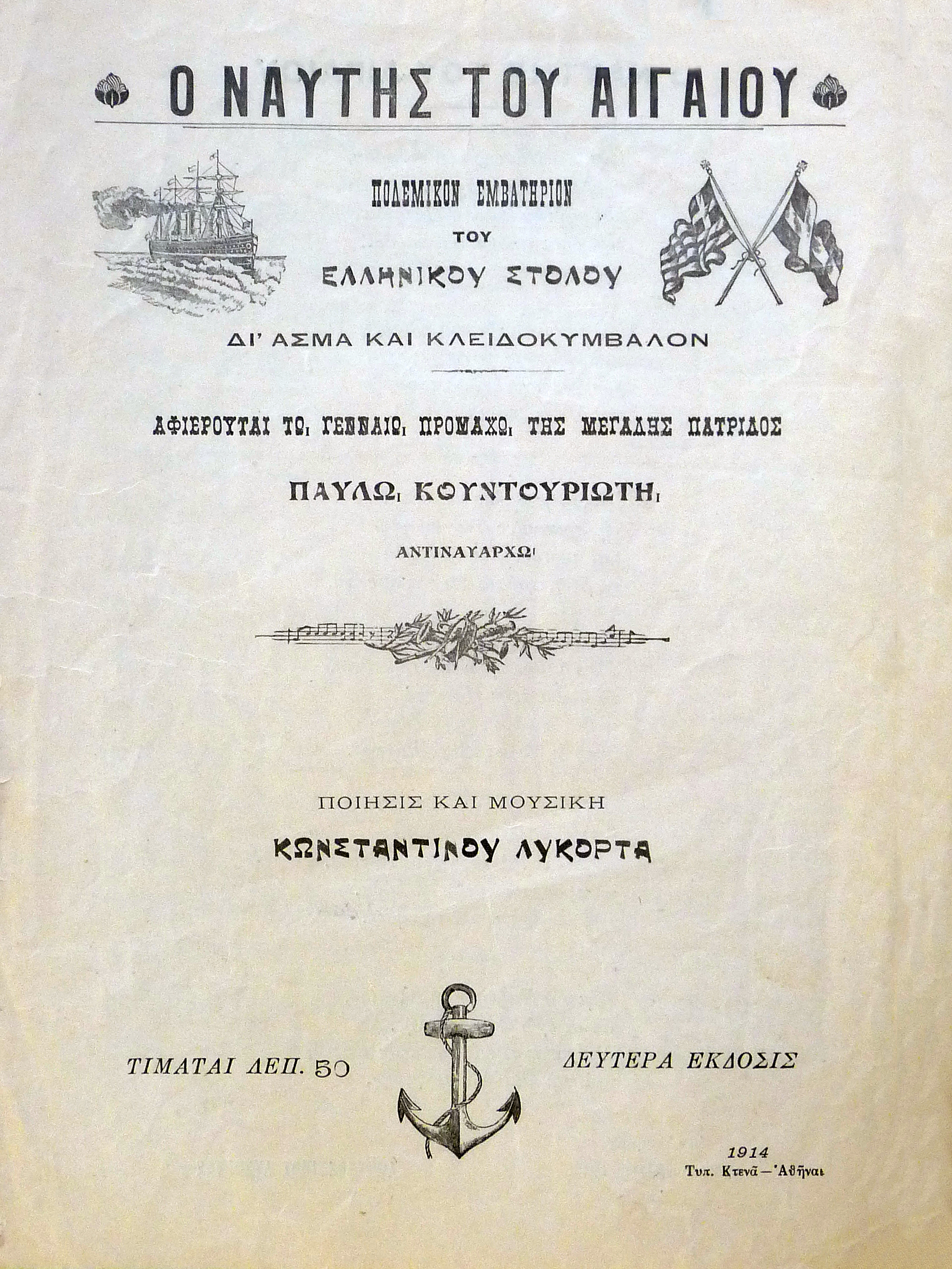 "Aegean Seaman" Hellenic Navy march